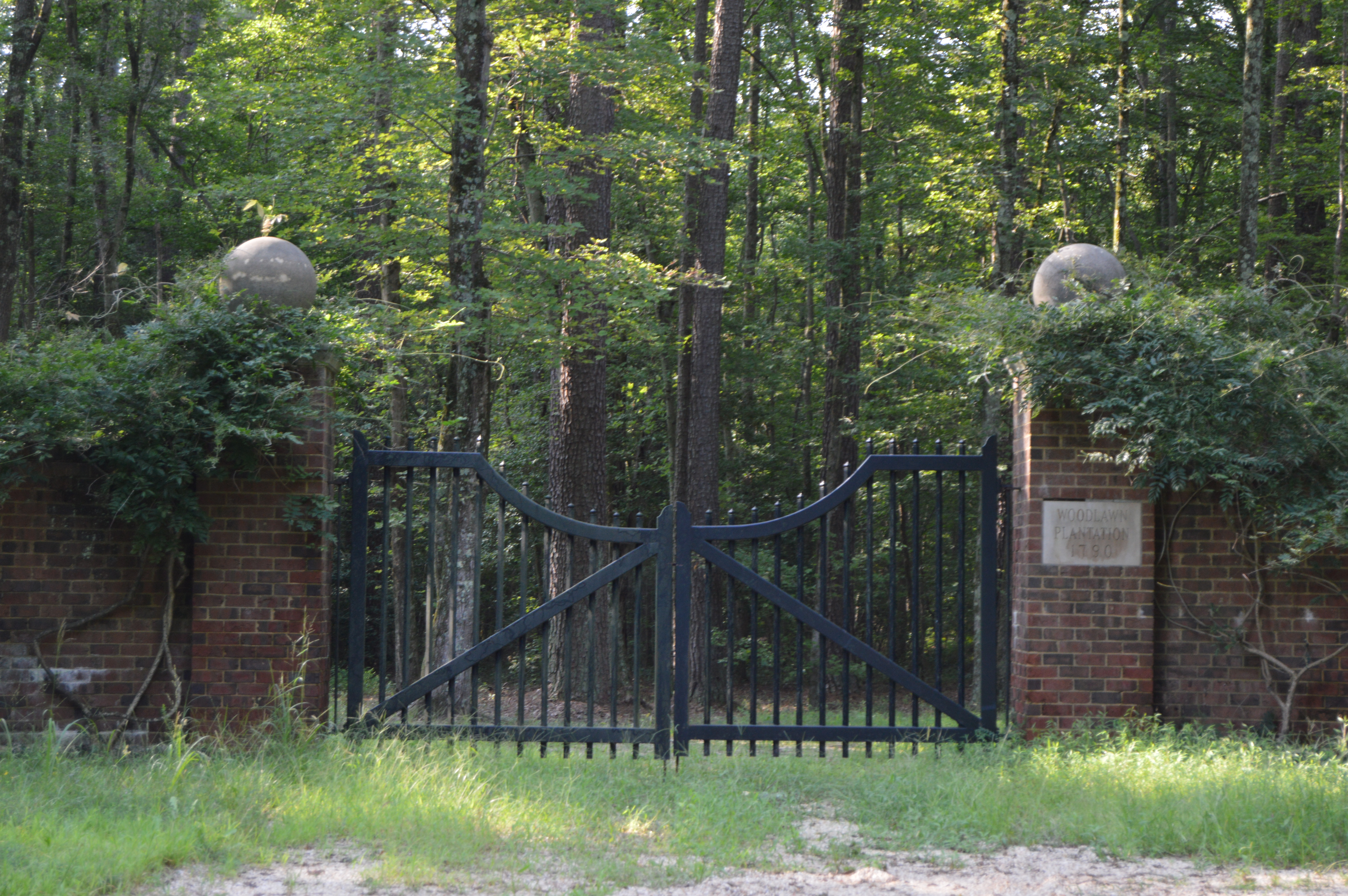 Gateway to the Woodland plantation, located off Salem Church Road west of Welcome in King George County, Virginia, United States. The estate is listed on the National Register of Historic Places.